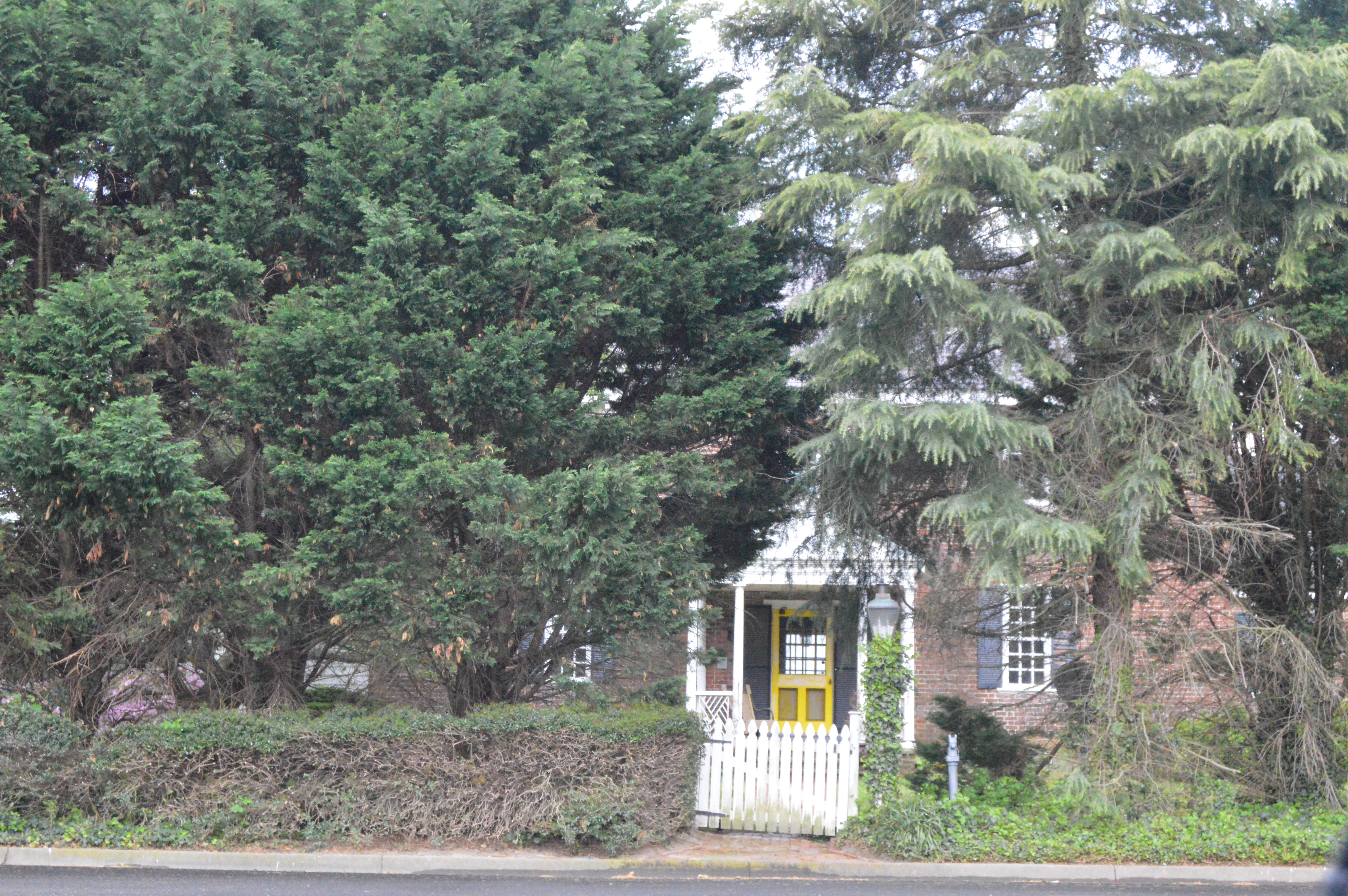 Front of Poplar Hall, located at 400 Stuart Circle in Norfolk, Virginia, United States. Due to extensive bushes, the house is nearly invisible from the street. Built in 1760, it is listed on the National Register of Historic Places.